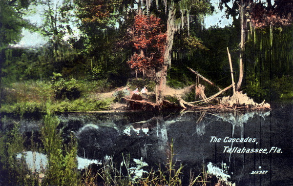 Digital image of a postcard of Cascades Park. The Florida State Capital now stands where this waterfall and pond once were. The Cascades was where the two Florida delegates, one traveling from St. Augustine and the other from Pensacola, met and camped. Thereafter, this site was determined to be the mid-point between Florida's first two cities, and was designated the state capital.